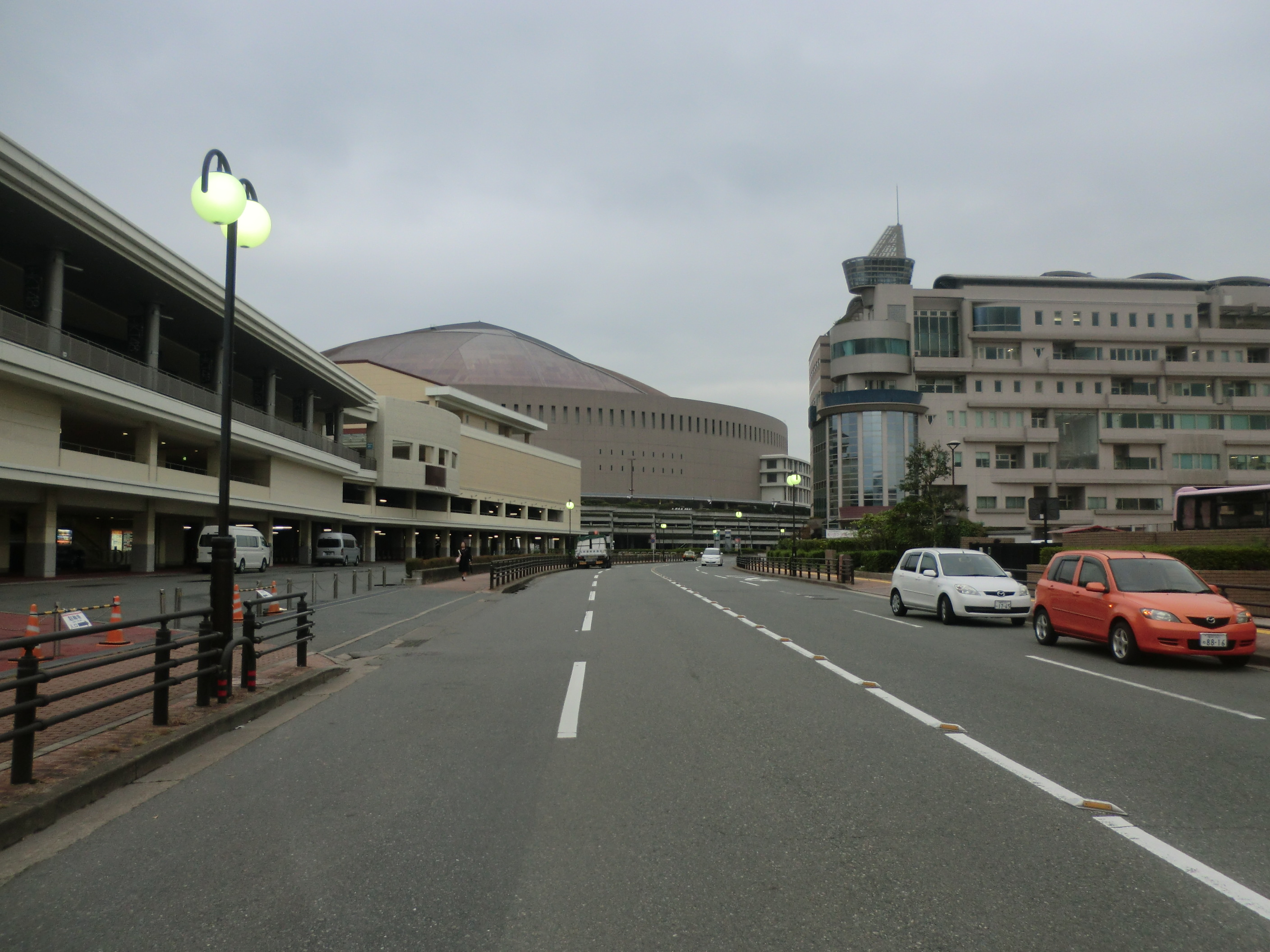 Street in front of HKT48 theater where music video of AKB48's "Koi Suru Fortune Cookie" was shot at Fukuoka, Japan.